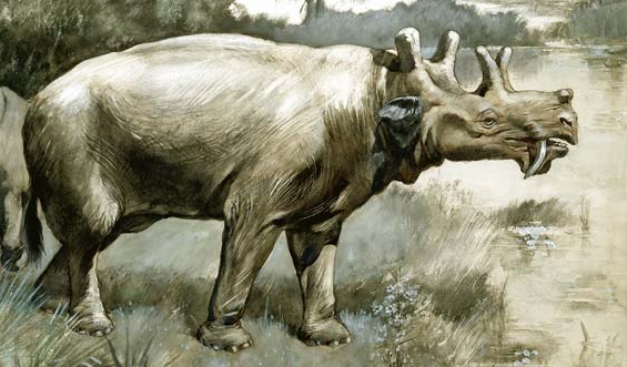 Crop of file in filename